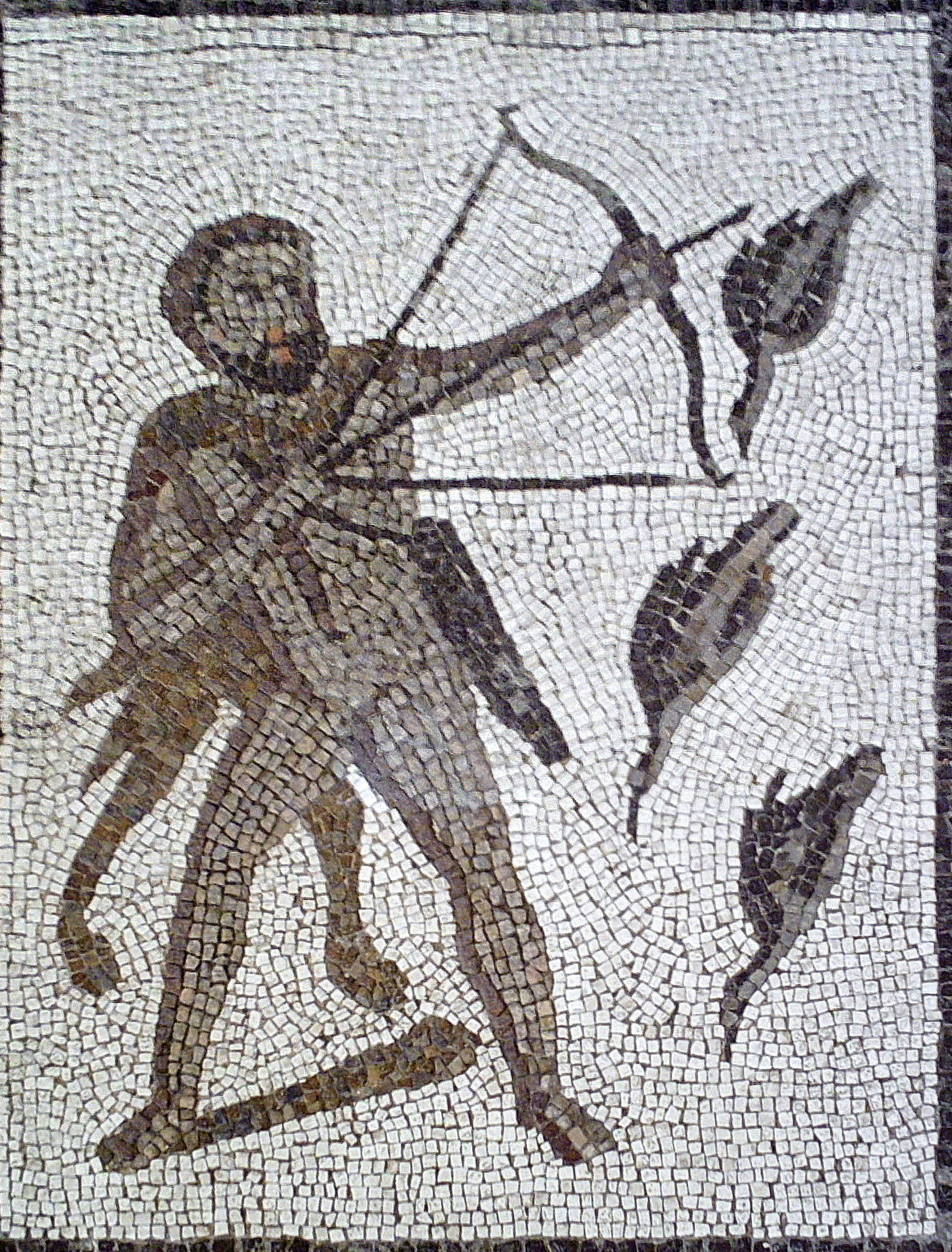 Hercules and the Stymphalian birds. Detail of The Twelve Labours Roman mosaic from Llíria (Valencia, Spain).